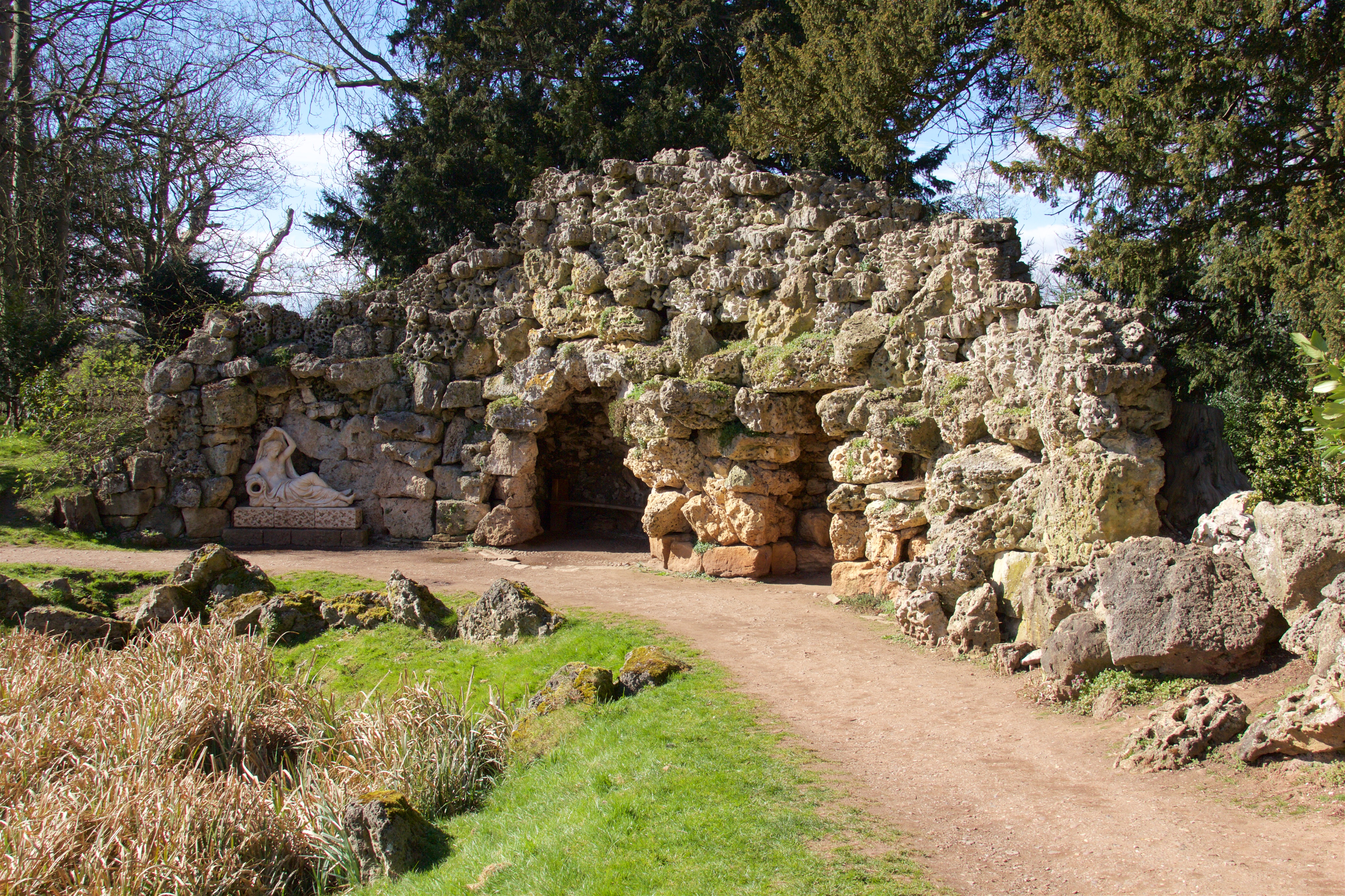 Croome Court, Croome D'Abitot, 2016